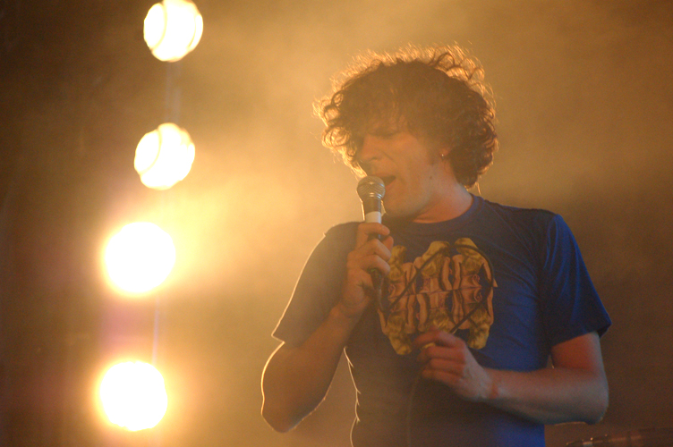 Nic Offer performing with !!! in Flow Festival in Helsinki, Finland